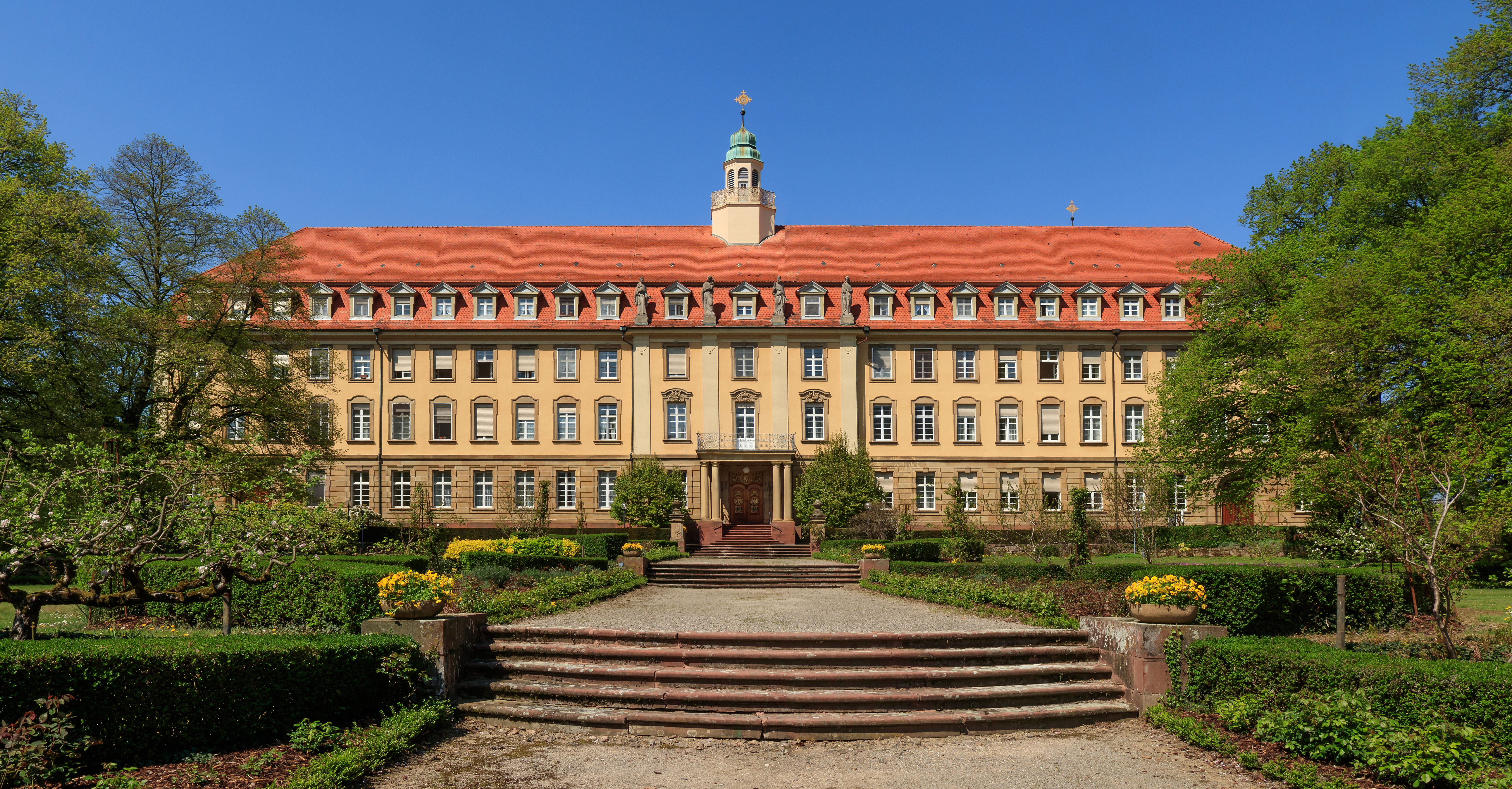 Nunnery Erlenbad, southeast facade, Sasbach, Germany.